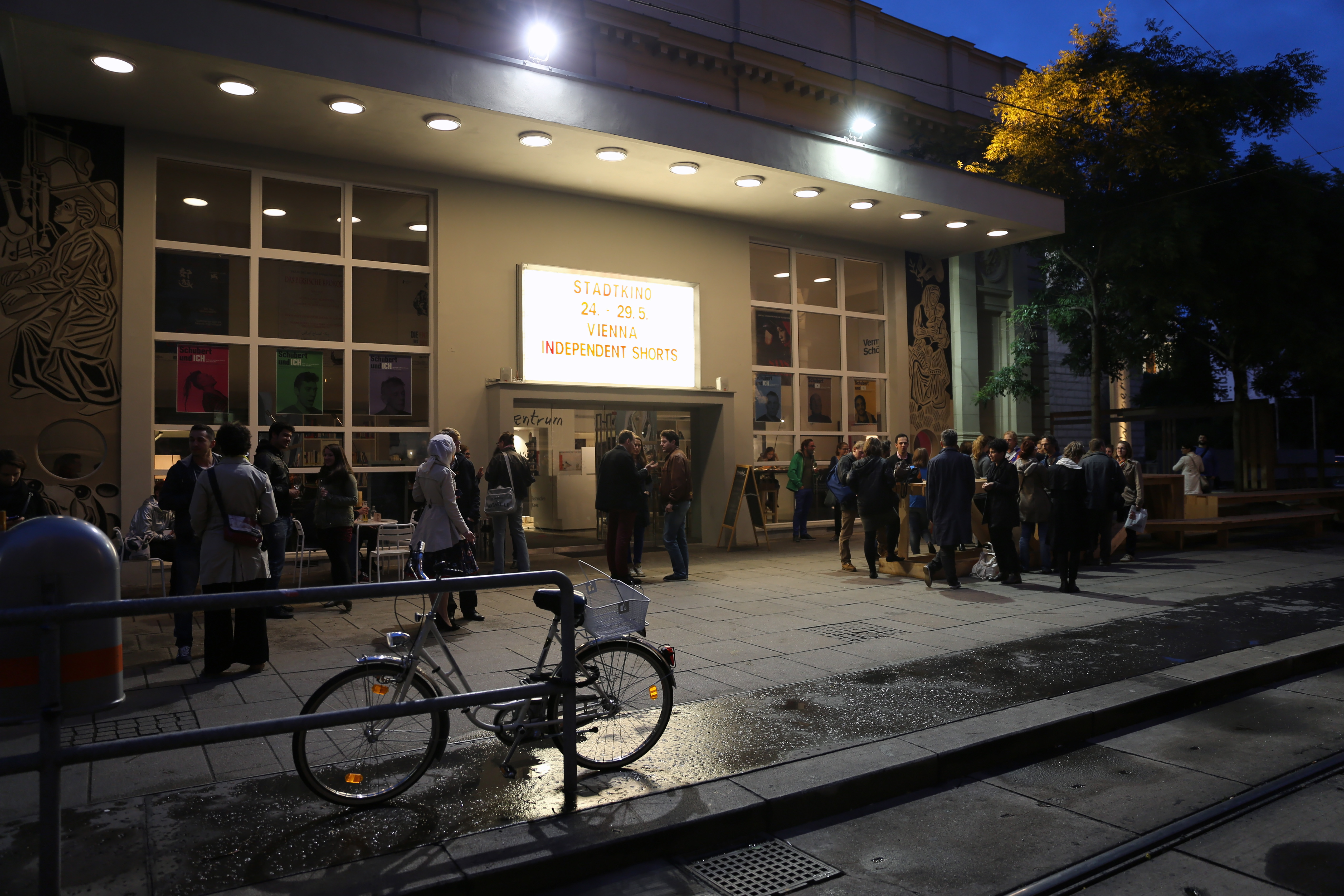 Stadtkino at Vienna Künstlerhaus, in May 2014 at the center of the film festival Vienna Independent Shorts (Vienna, Austria).